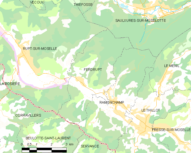 Map of French municipality Ferdrupt